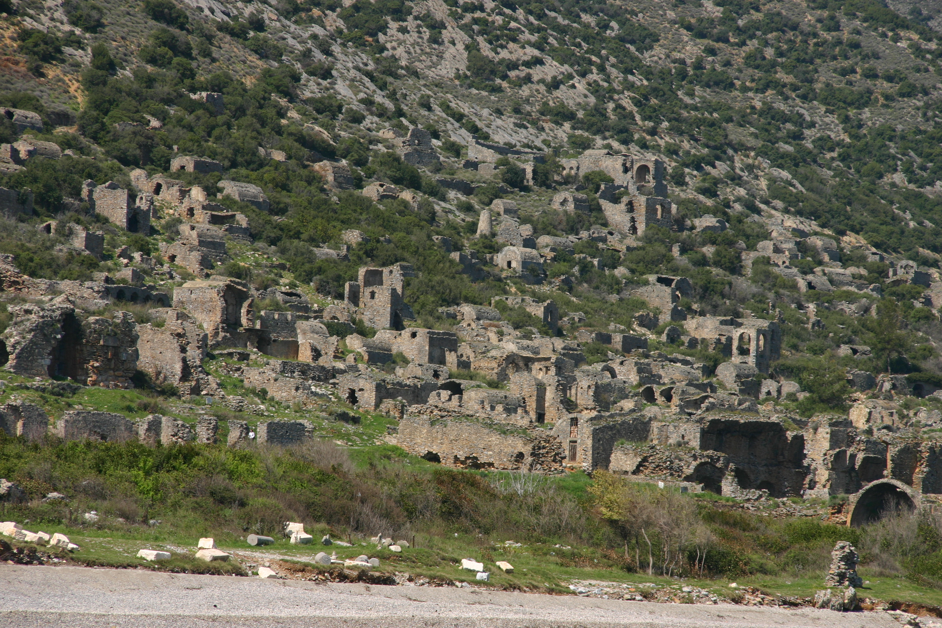 The necropolis of Anemourion